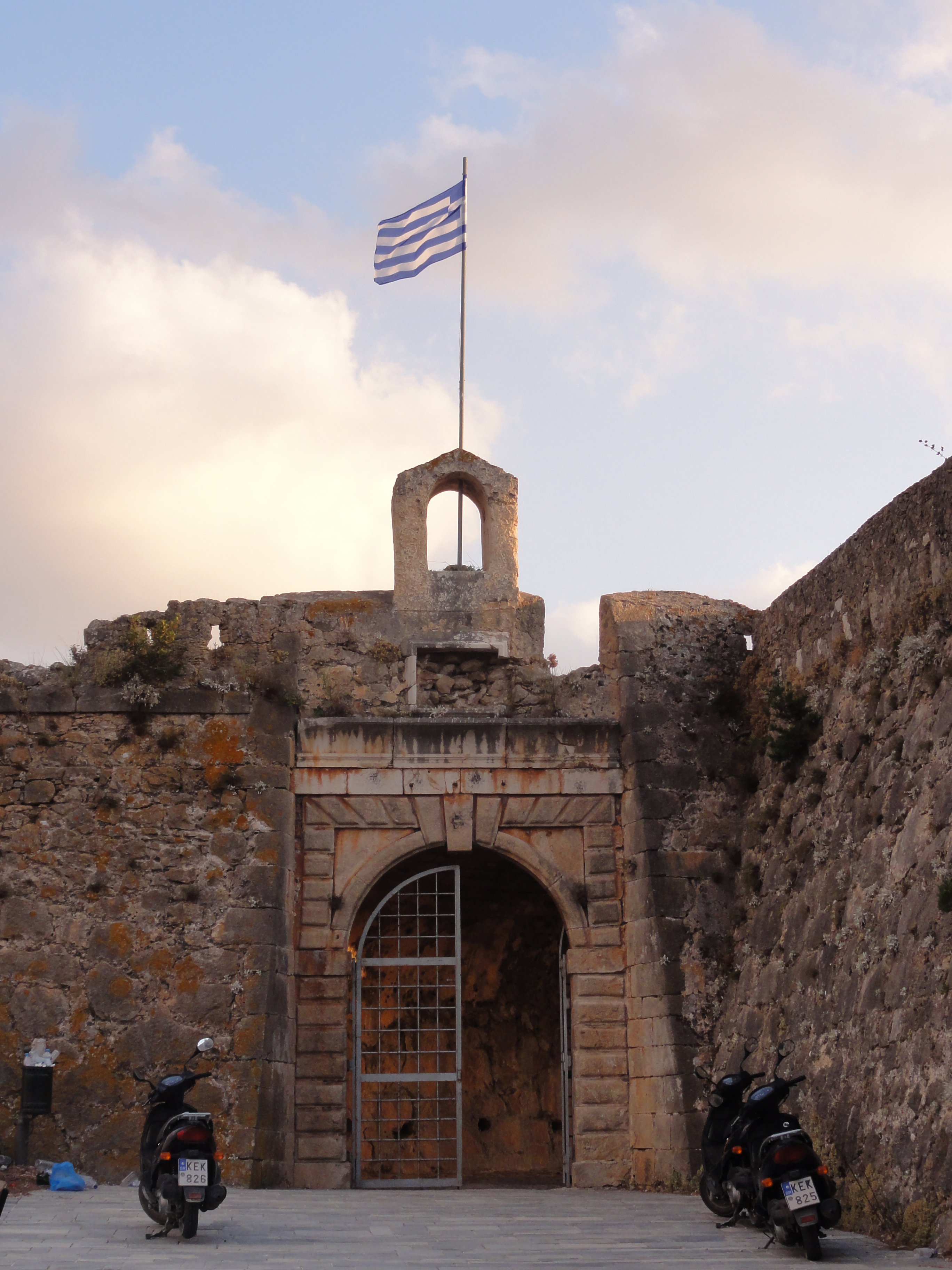 Photographs taken in Kefalonia.